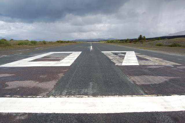 Ashaig Airstrip Ashaig is an unlicensed airstrip close to Broadford. It was constructed in 1972, and has seen no scheduled flights since the demise of the Loganair service in 1988. Today, it is used only by small private aircraft visiting Skye, and by the Scottish Ambulance Service helicopters for medical flights to Inverness. The runway is 711 metres long. There is a reciprocal view at File:Ashaig airstrip runway 25, Isle of Skye - .uk - 391580.jpg.